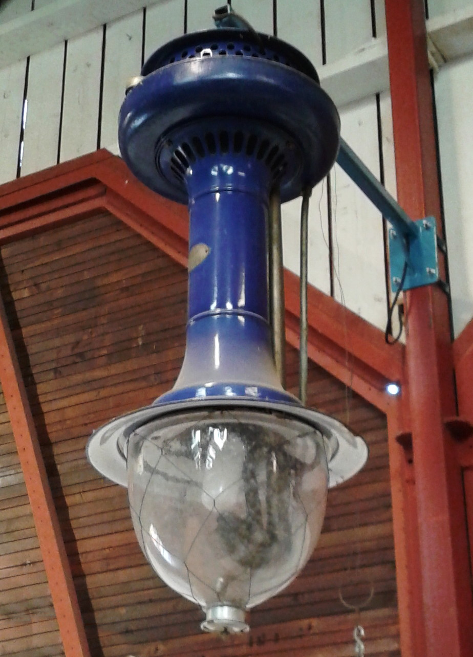 An "Autoluxlamp" at the railroad museum, Gamla Linköping, Linköping, Sweden.